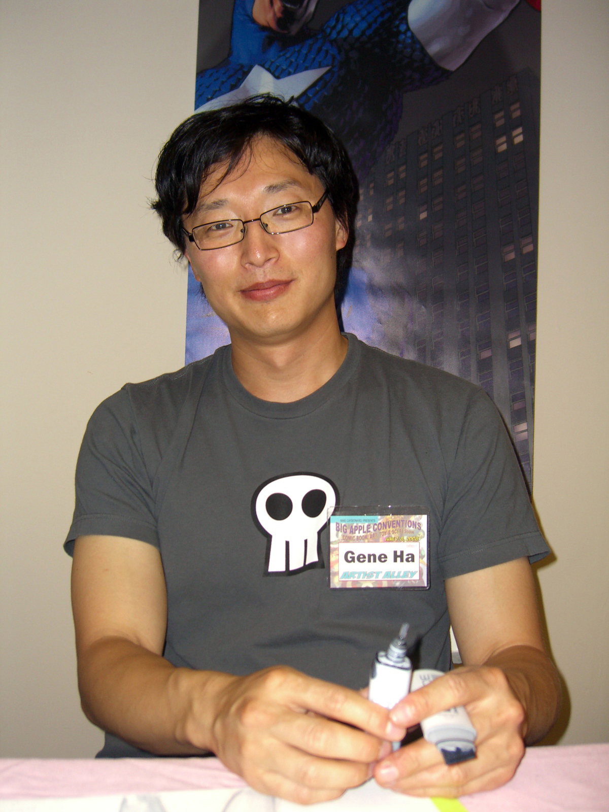 Comic book creator Gene Ha at the Big Apple Convention in Manhattan, June 8, 2008.Photo by Luigi Novi. This photo may be used, modified and published for any purpose, only if the photographer is visibly credited in each instance in which it is used. (See licensing information below.) For more information on my photos, you can contact me here.